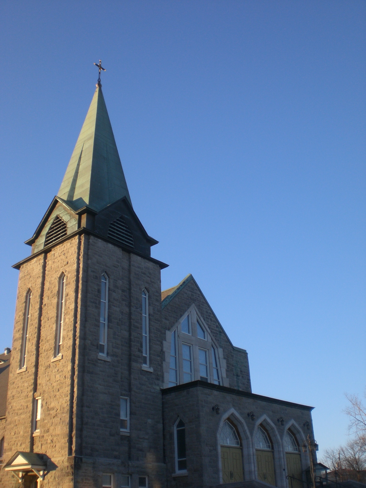 Photo of the entrance of St. Joseph Cathedral, Gatineau